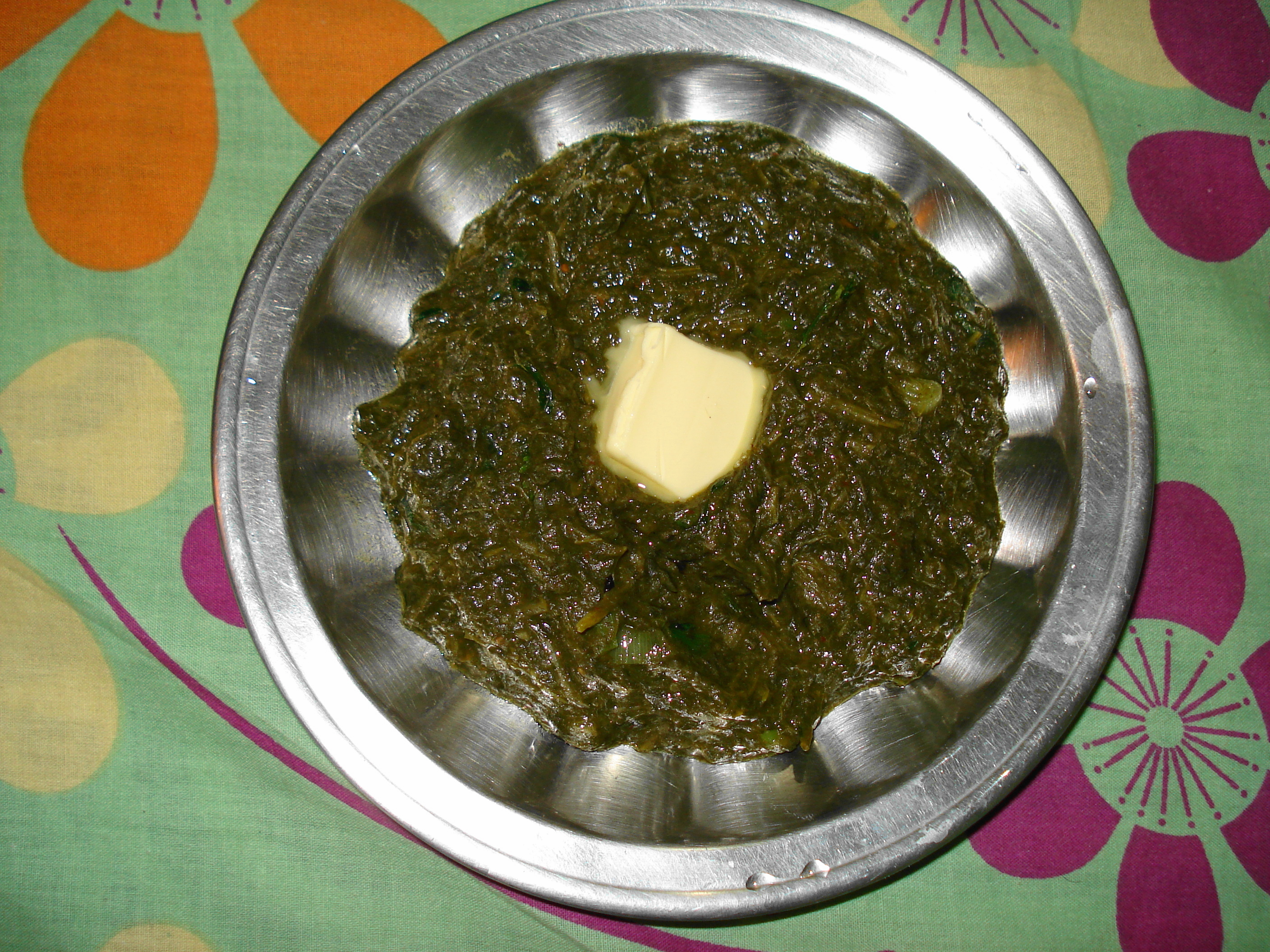 Sarson Ka Saag, Brassica campestris var. sarson (Mustard Leaves Dish) is a popular dish in Punjab, served with Makkahn (butter) and Makai ki Roti (corn/maize flour bread).